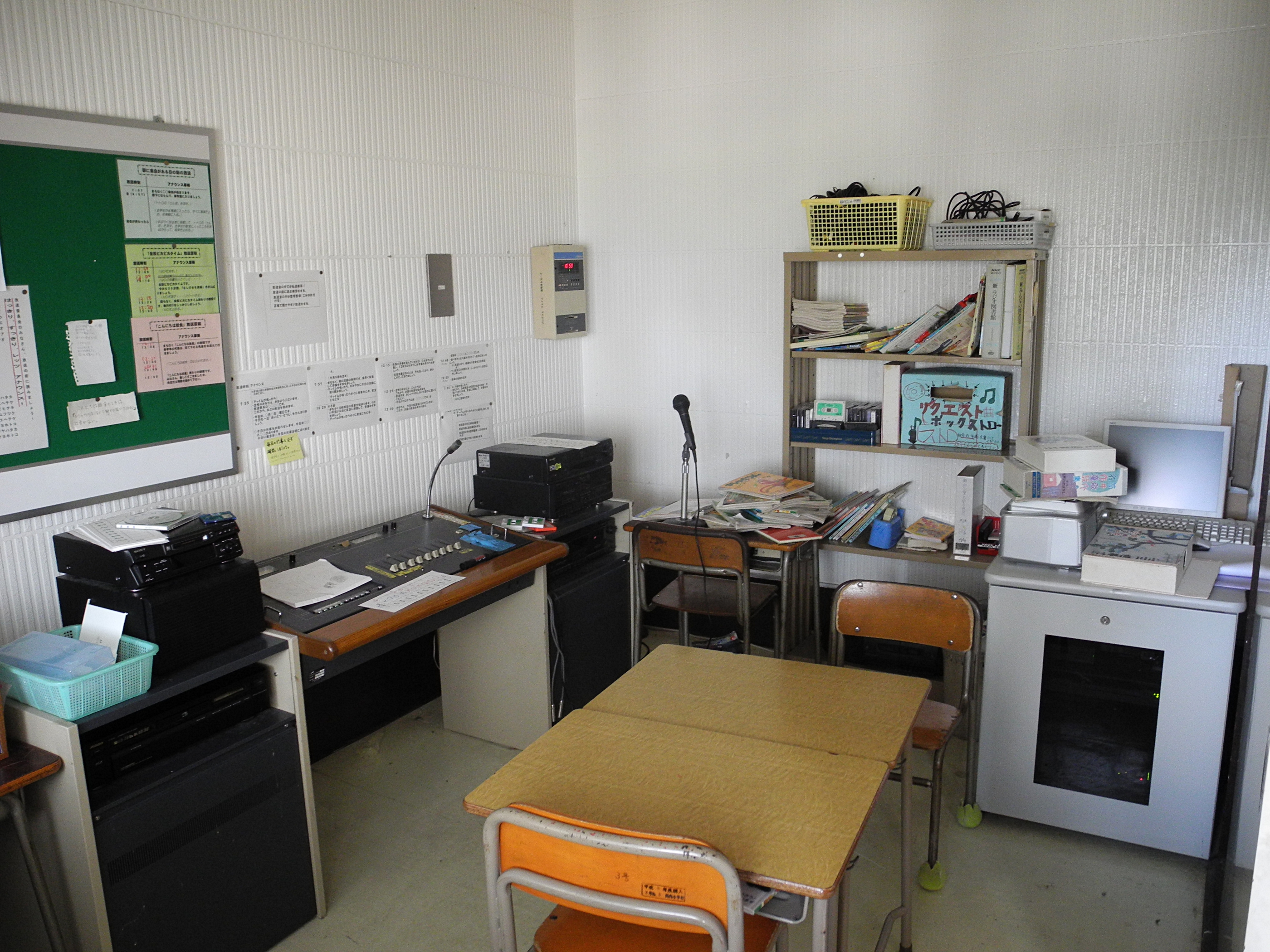 Broadcast room. Kawauchi Elementary School. Fushimi, Chokai, Yurihonjo, Akita, Japan.